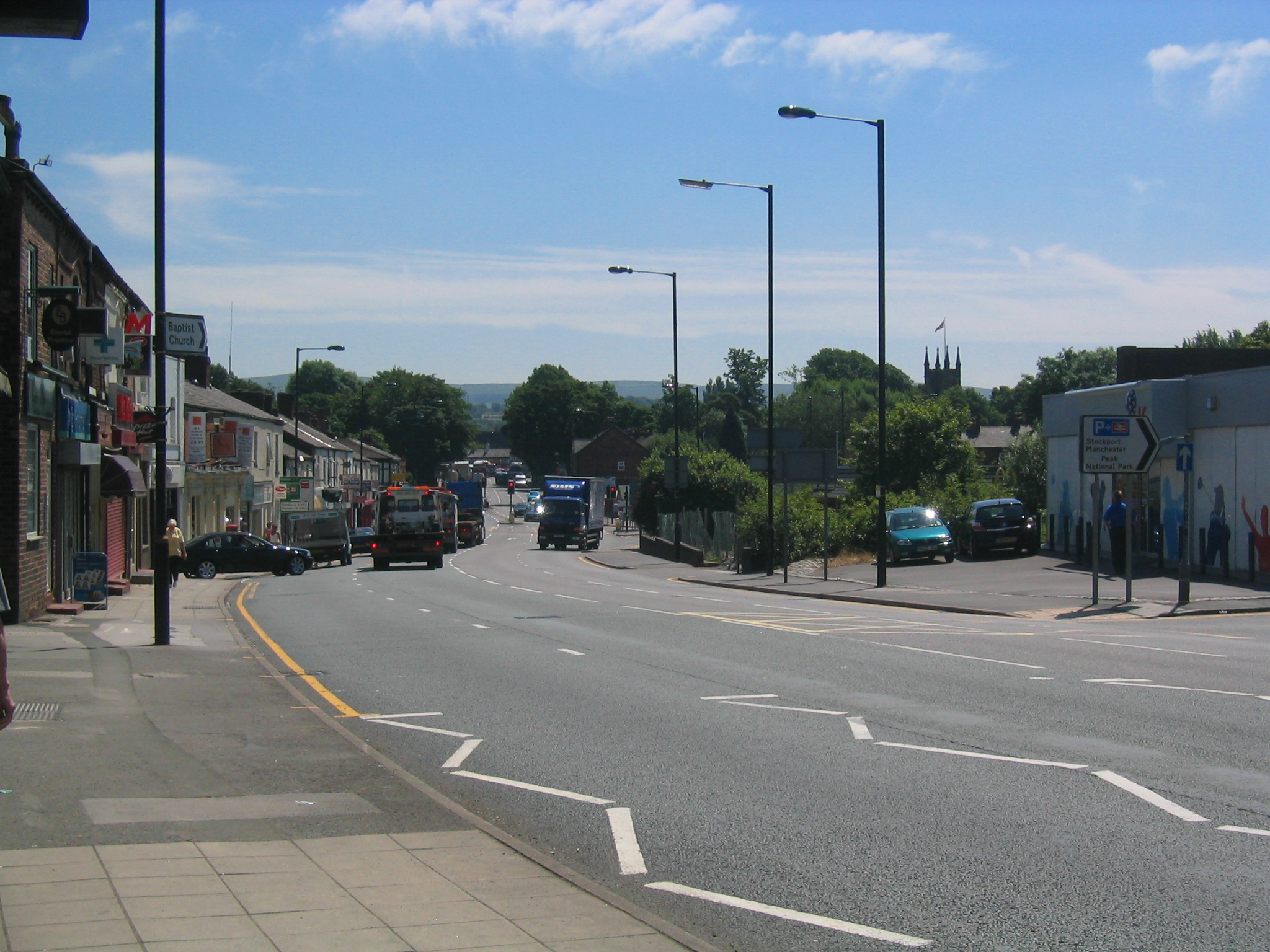 Author: Alison Green Subject: A6, Hazel Grove, 2005